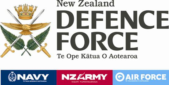 Official Logo of the New Zealand Defence Force